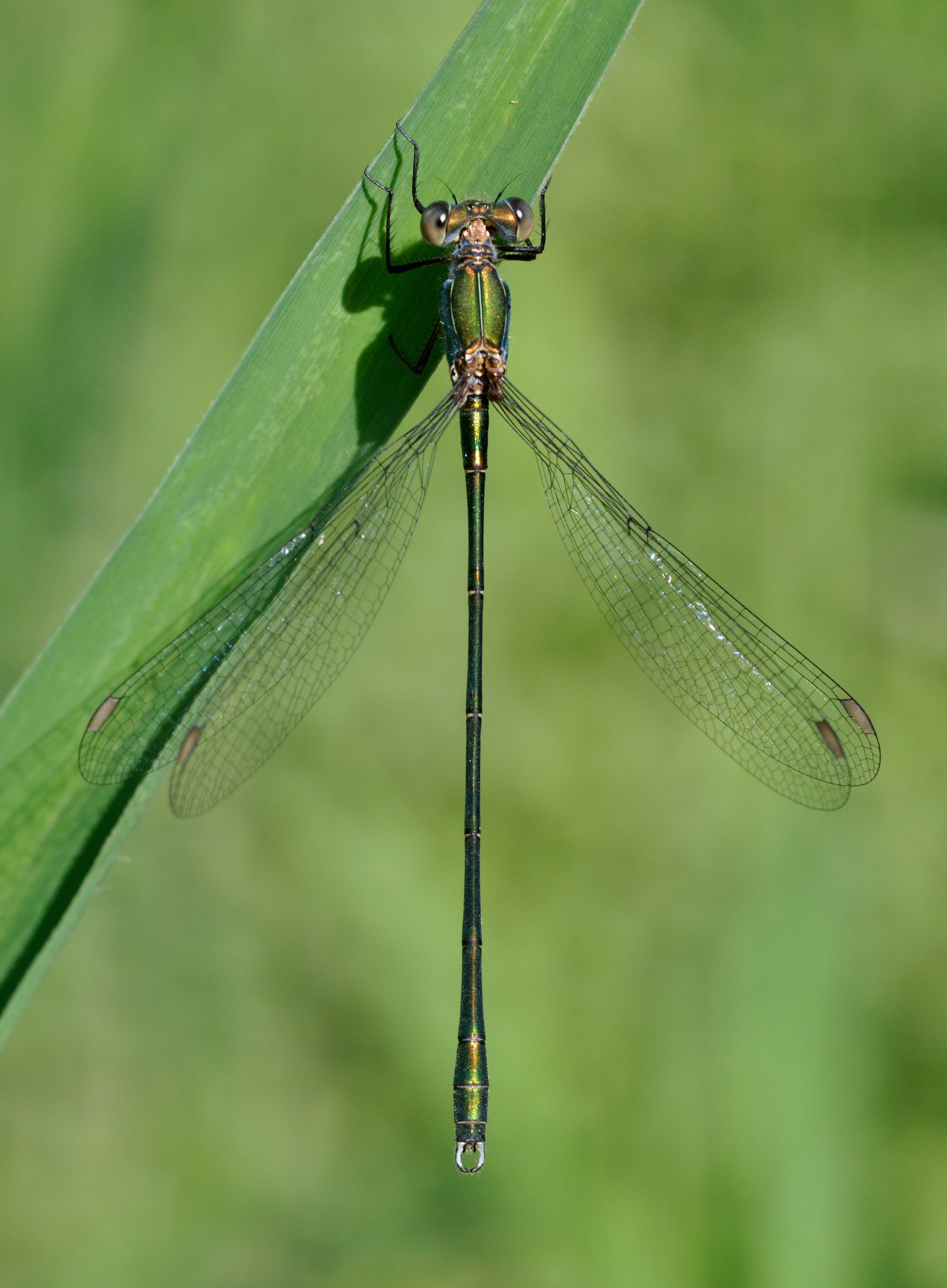 Male Willow Emerald Damselfly (Chalcolestes viridis) at a retention basin in Ahlen, Germany.